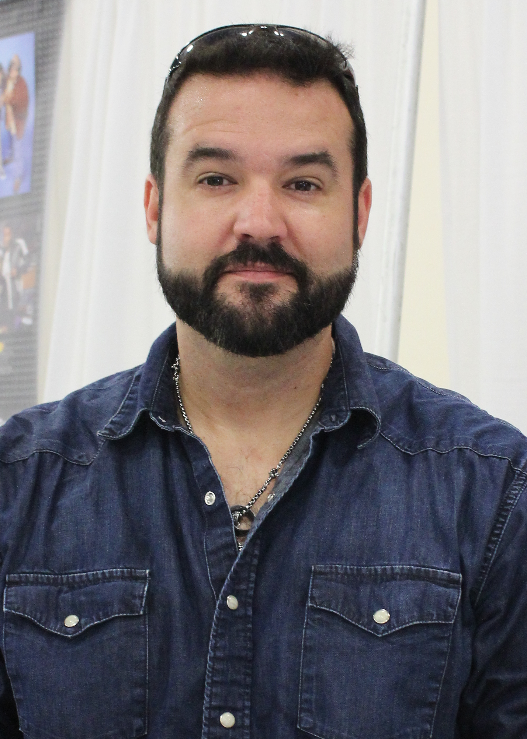 Austin St. John at the Florida Supercon in 2016